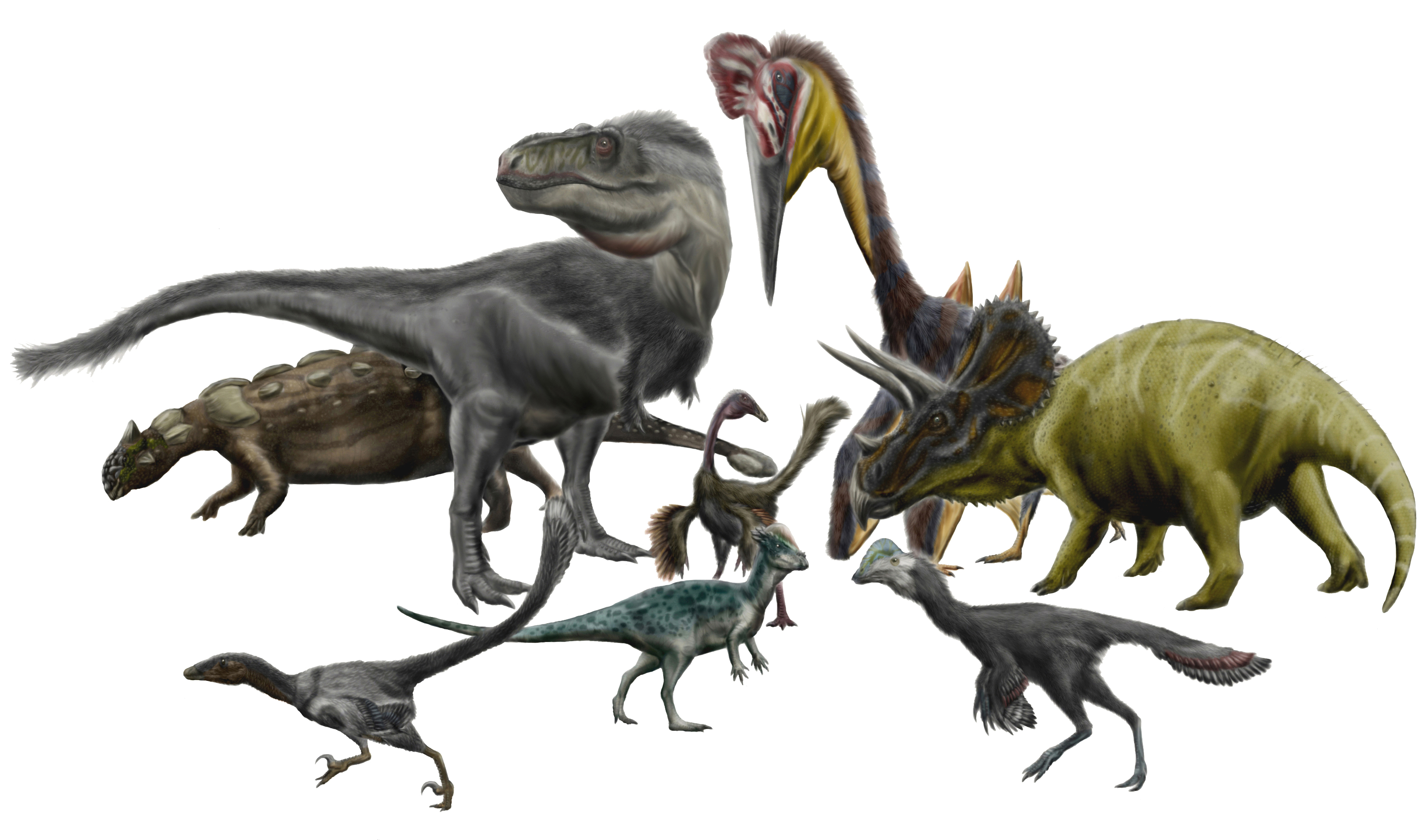 Various dinosaurs and pterosaurs from the Hell Creek Formation. From back to front: Ankylosaurus, Tyrannosaurus, Quetzalcoatlus, Triceratops, Struthiomimus, Pachycephalosaurus, and the unnamed dromaeosaurid and caenagnathid now named Acheroraptor and Anzu respectively.